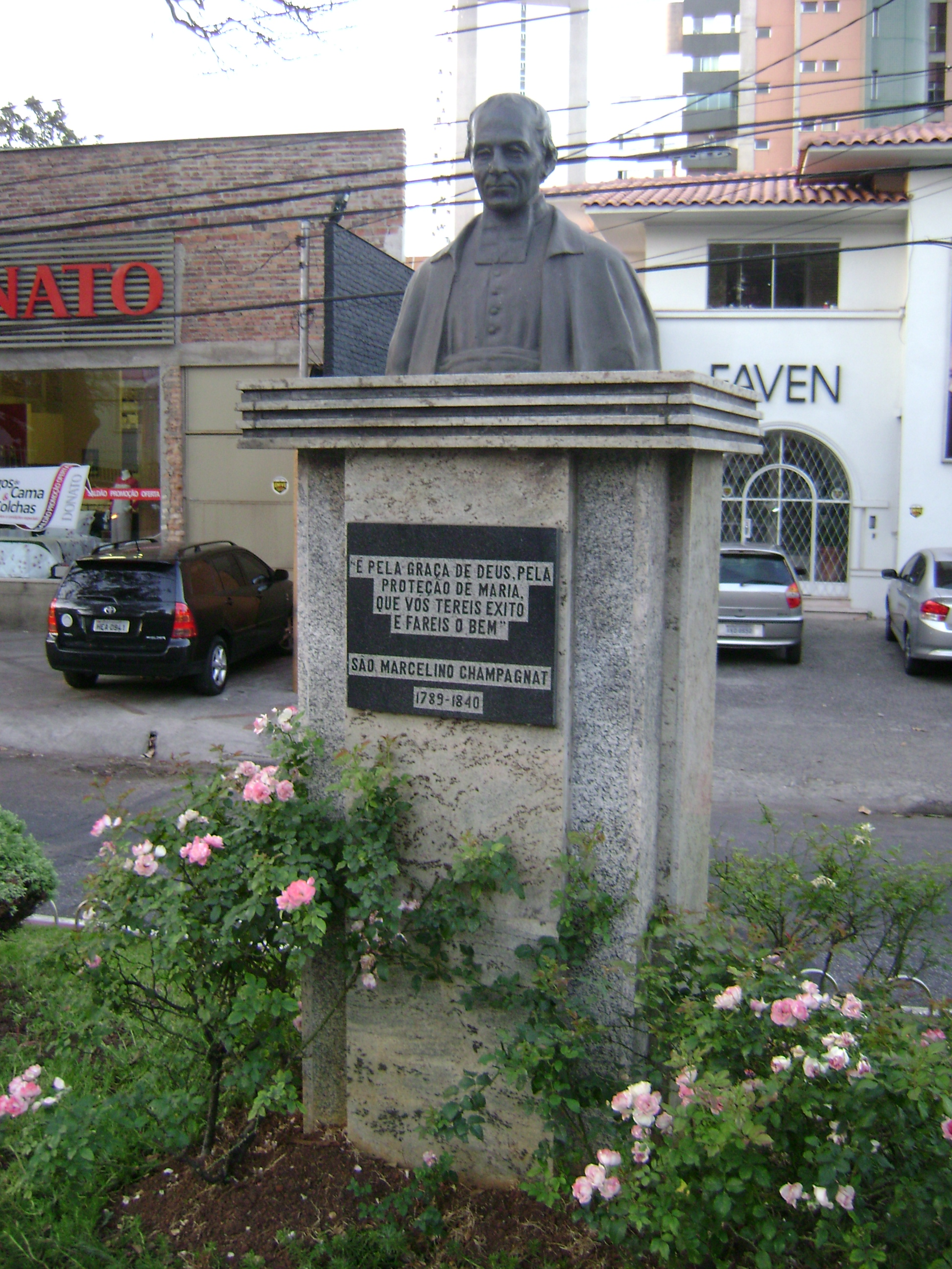 Marcellin Joseph Benoît Champagnat statue at Belo Horizonte, Minas Gerais, Brazil.